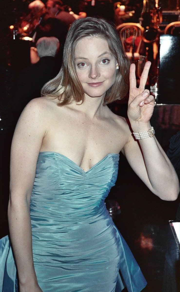 Jodie Foster flashes V for victory for my camera, after winning an Academy Award. Photo taken at the Governor's Ball following the telecast of the 61st Annual Academy Awards, 1989. NOTE: Permission granted to copy, publish, broadcast or post any of my photos, but please credit "photo by Alan Light" if you can. Thanks. Scanned from the original 35MM film negative.